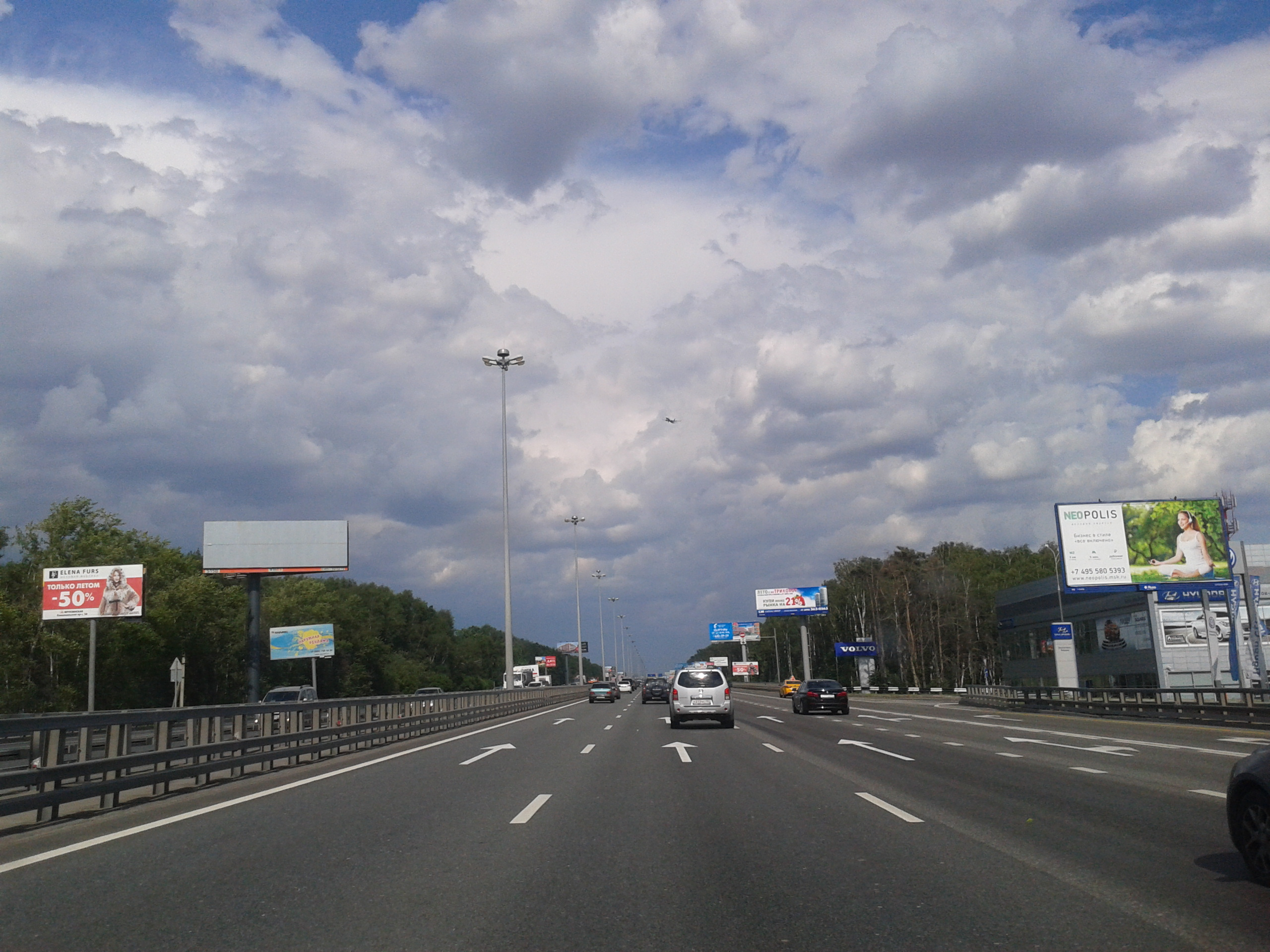 Kievskoe highway, Moscow ("New Moscow")